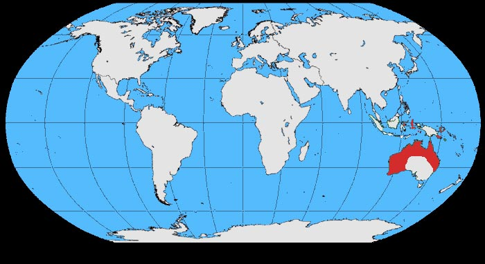 Distribution of Corvus orru